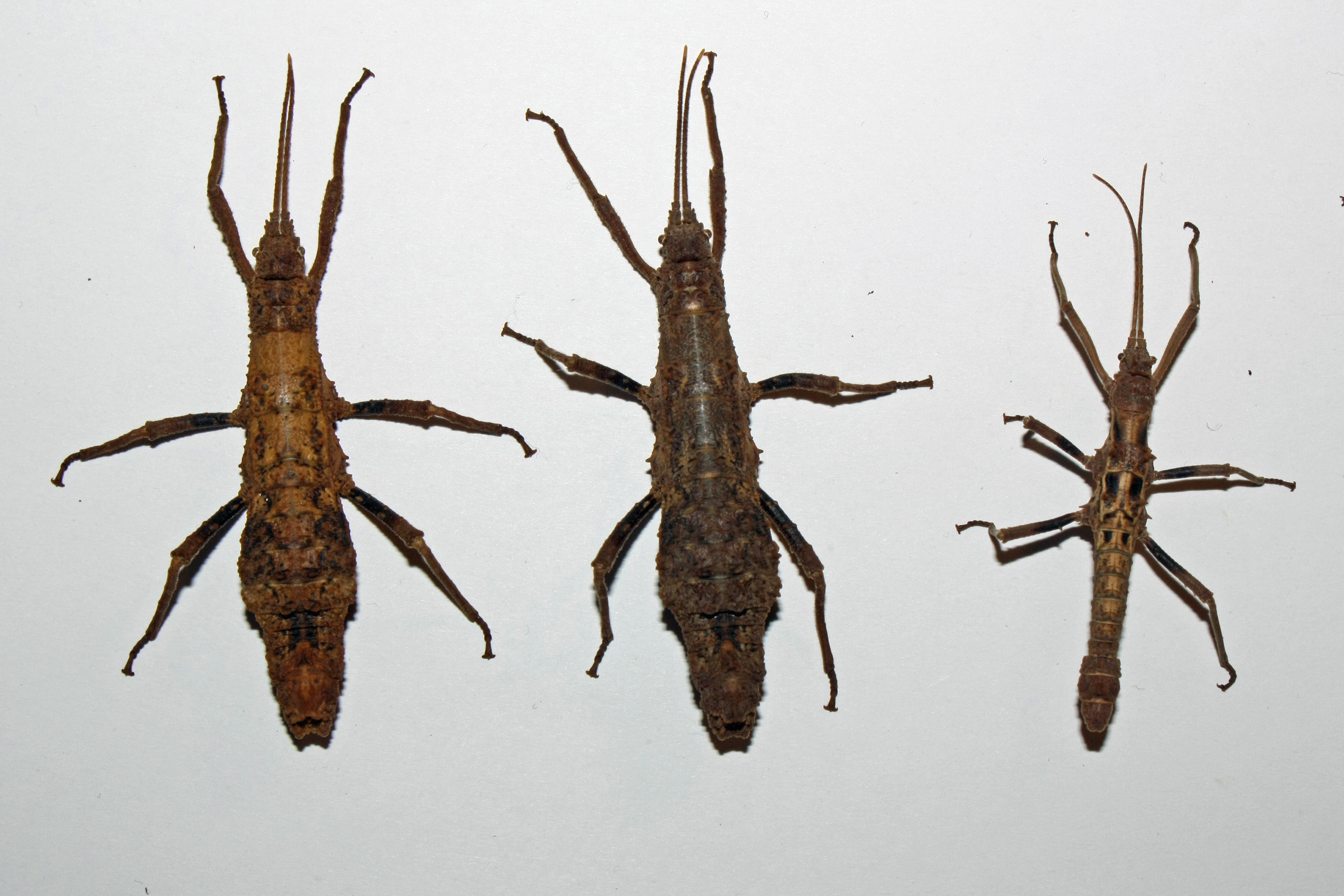 two diffrent coloured females and one male of Spiny Sabah Stick Insect (Dares verrucosus)